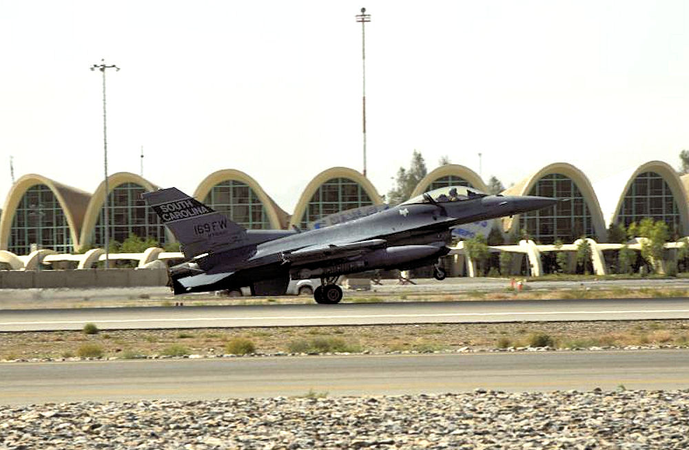 USAF F-16C block 52 #93-0549 assigned to the 157th EFS at Kandahar Airfield returns after flying a mission on June 1st, 2012 in support of OEF. [USAF photo by TSgt. Caycee Cook]